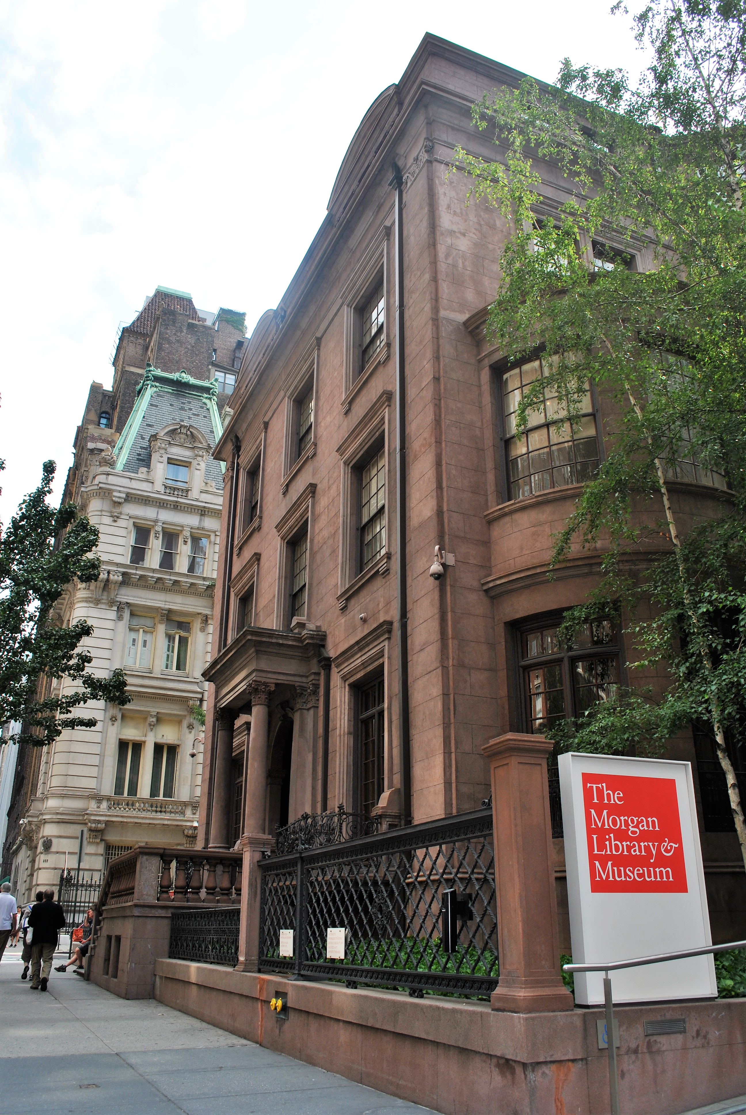 Image originally published in Queer Places: Retracing the Steps of LGBTQ people around the World Authored by Elisa Rolle